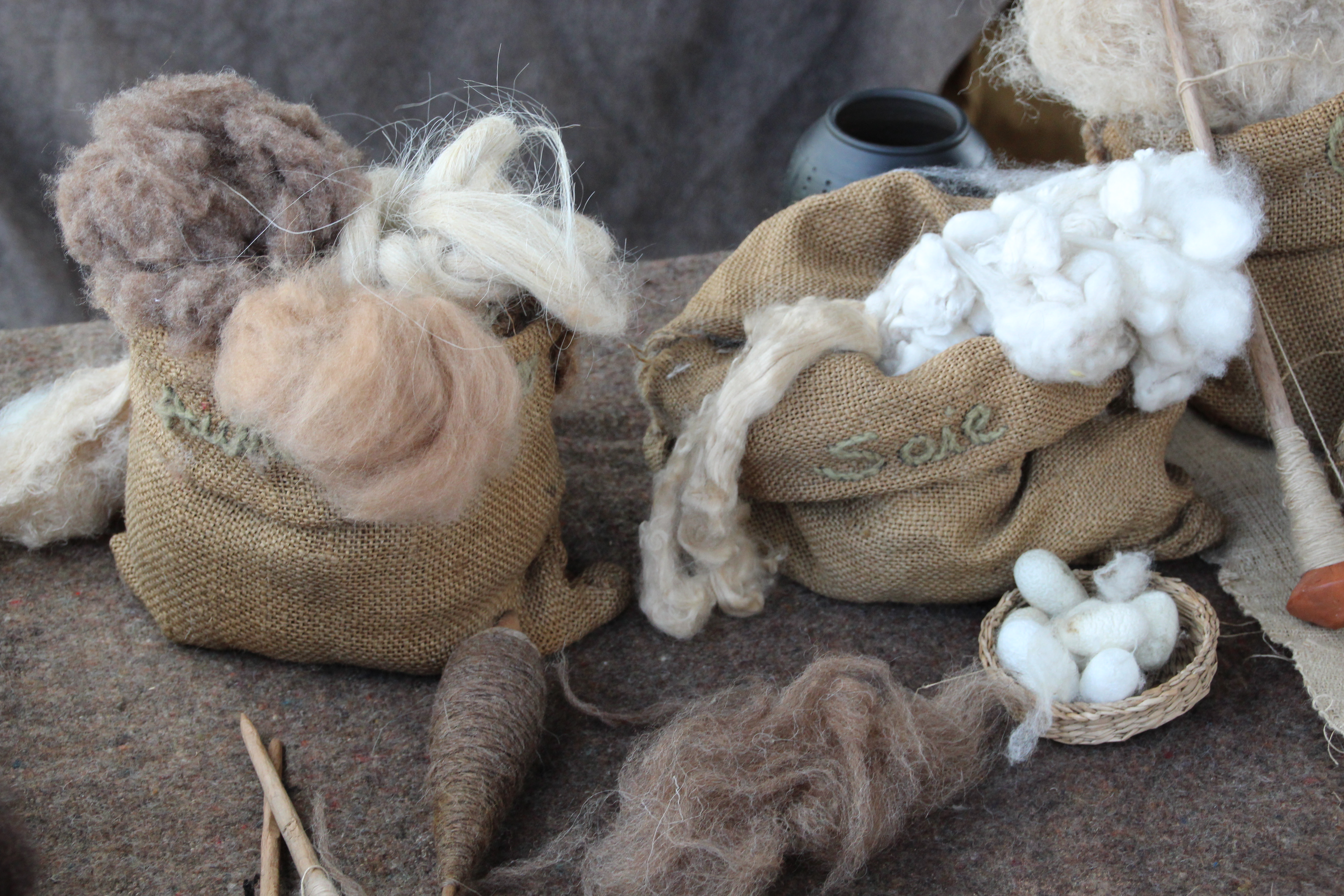 Archaeological site next to the industrial area SudEssor on the highway 20 at the entrance of Morigny-Champigny, France.